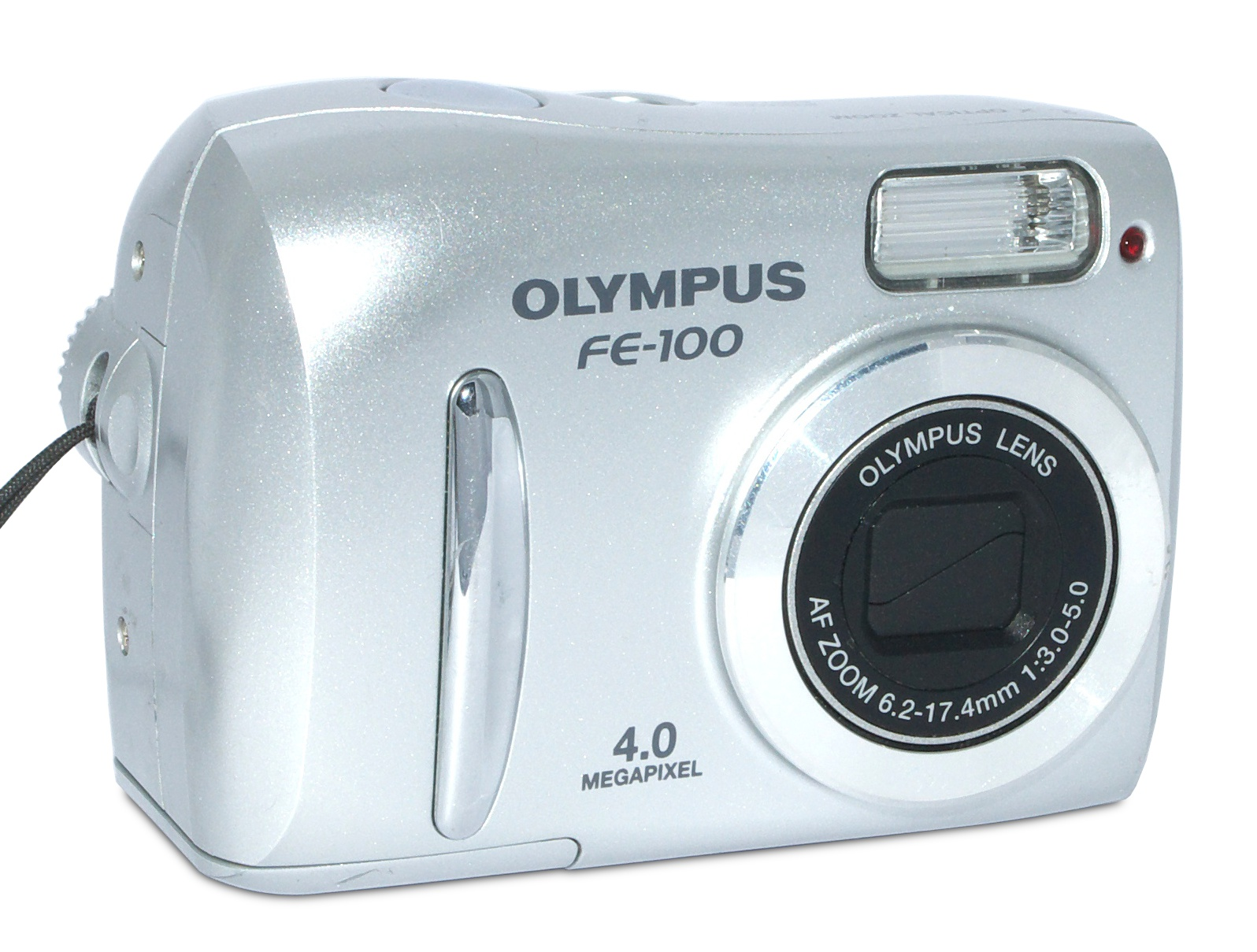 Olympus FE-100 front